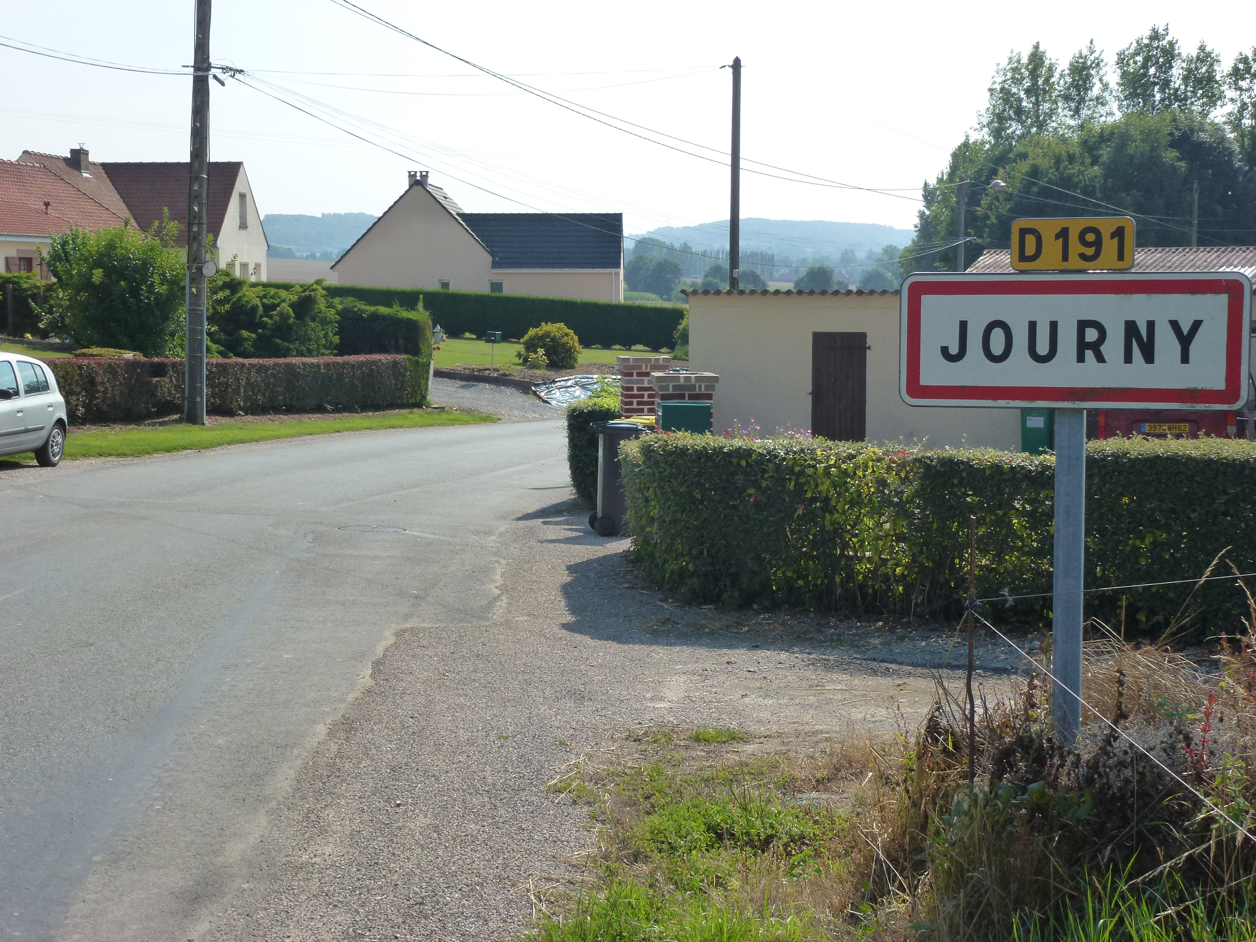 Journy (Pas-de-Calais) city limit sign